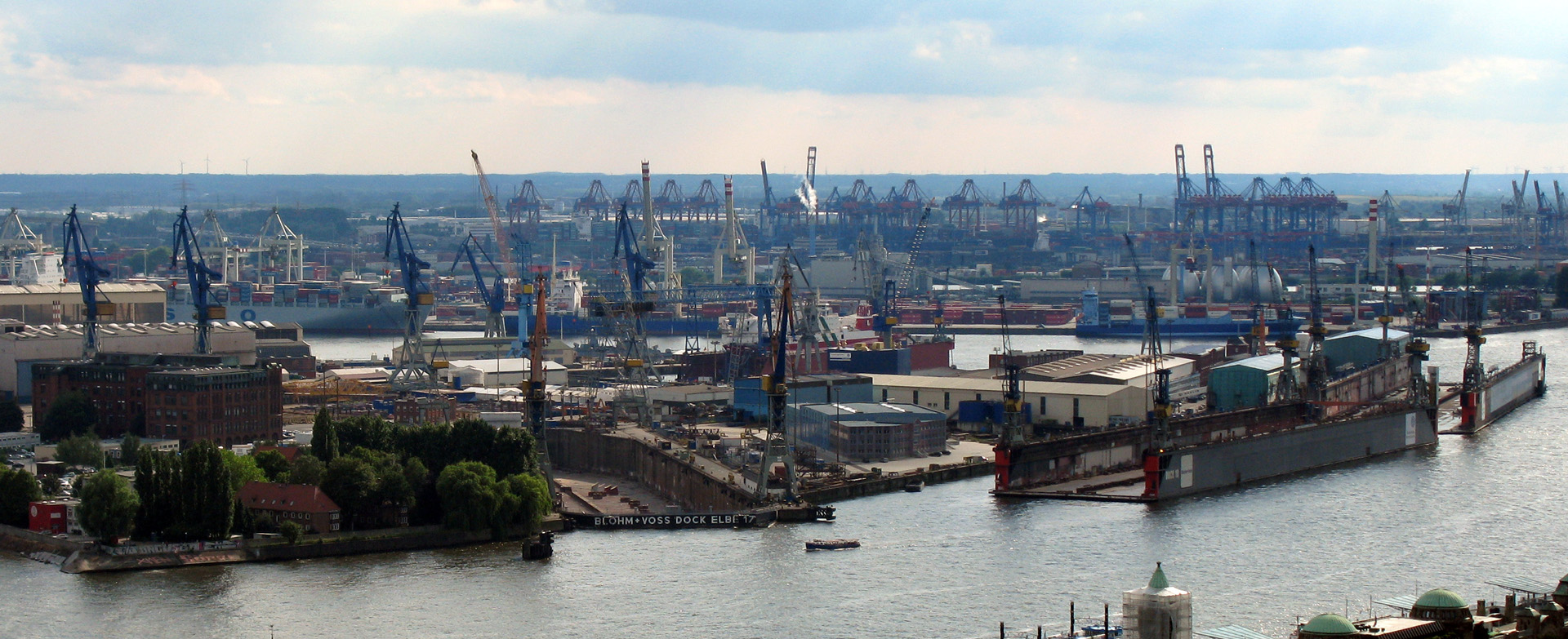 Blohm + Voss